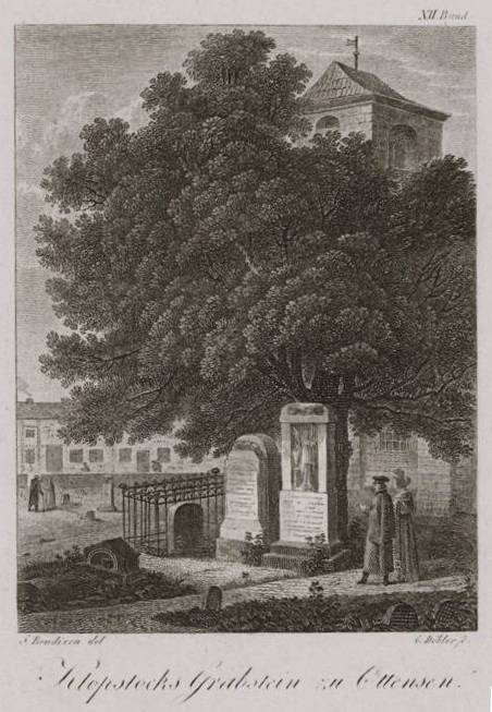 Klopstock's grave 1805. Etching by Georg Döbler (1789-1845) after Siegfried Detlev Bendixen (1786-1864)